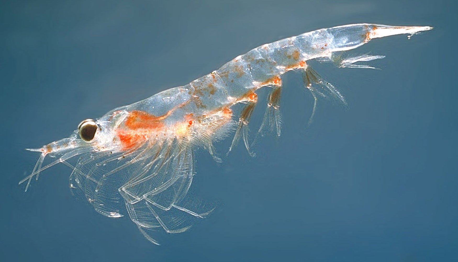 A Northern krill (Meganyctiphanes norvegica).